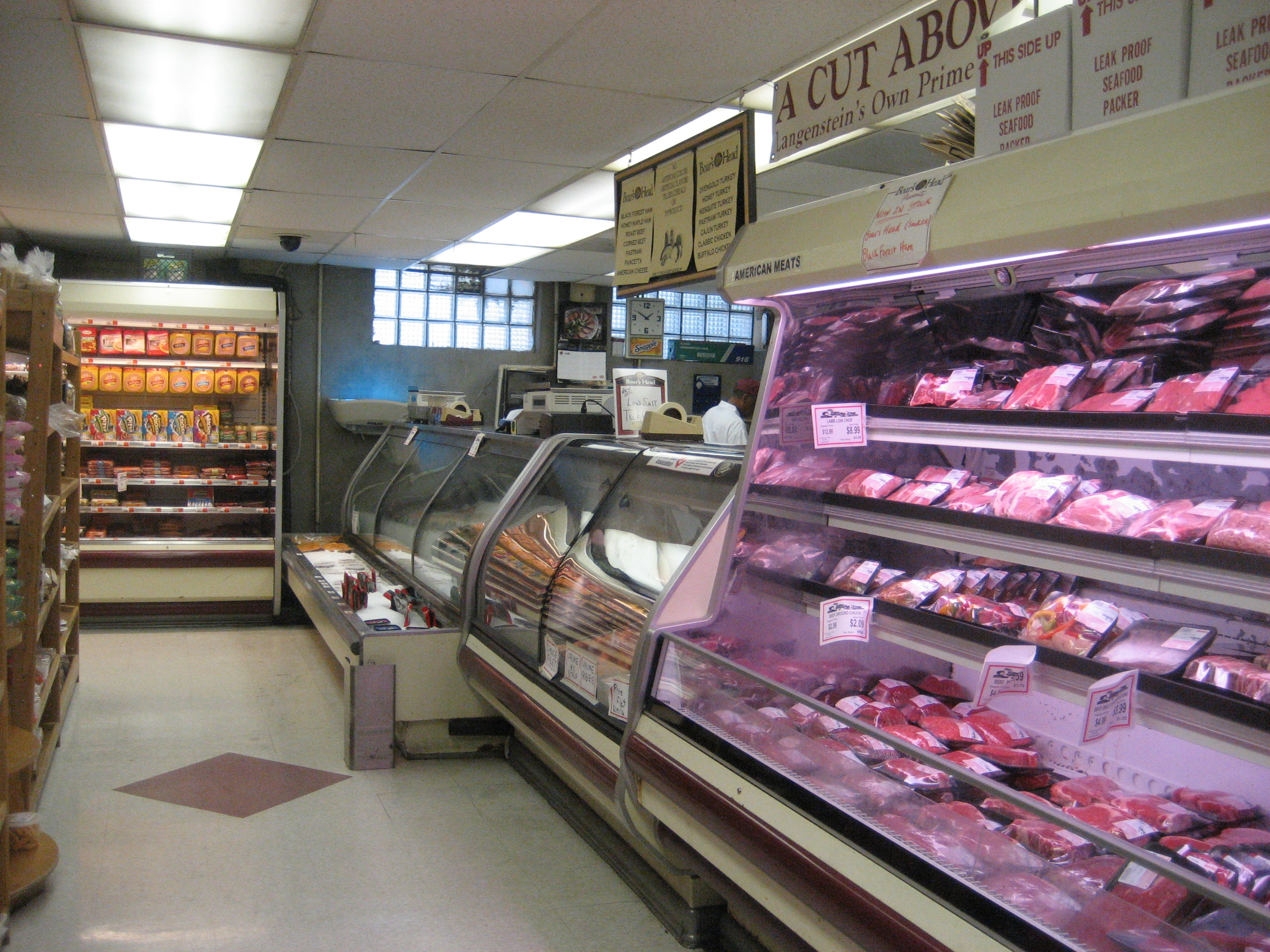 Butcher counter in Grocery store in New Orleans, 2008. (Langenstein's, Uptown)